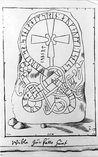 The rune stone at Jakobsberg's folk high school - the south stone from the Viking Age, Järfälla, Stockholm County. Drawing of the stone made in 1682 by Johan Hadorph and Johan Leitz. Photograph from Peringskiöld's "Monumenta". Inscription: "Gunvor and Kättelfrid let erect the stone. Holmstein and Holme erected the stone after Frösten....". Otto von Friesen interpreted the end of the inscription to: "Jobjörn carved".